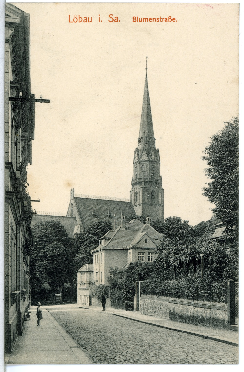 This postcard is from publisher Brück & Sohn in Meißen ( This postcard has a unique number 15119 and is available in a higher resolution at the publisher. This images was uploaded in a cooperation project between Wikipedians and the publisher.